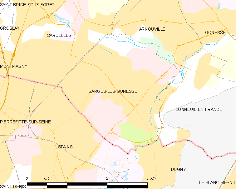 Map of French municipality Garges-lès-Gonesse